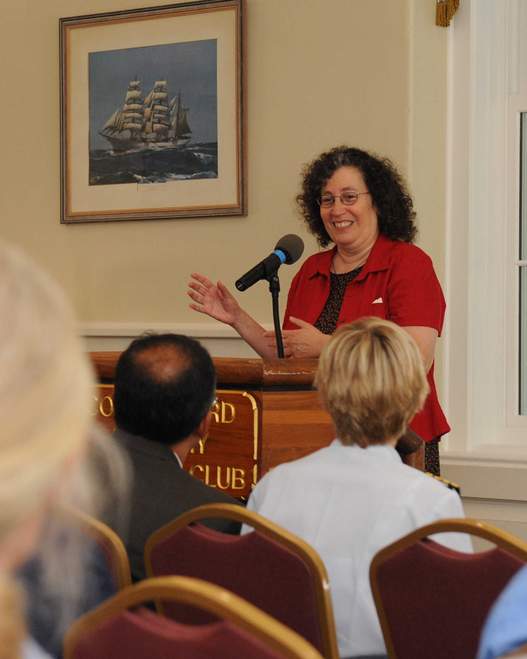 NEW LONDON, Conn. - Dr. Faye J. Ringel was named professor emeritus today at the Coast Guard Academy during a ceremony at the Officer's Club here after more than 20 years of service. The Professor Emeritus Award recognizes academic and professional faculty members who have made significant contributions to the academy with the recommendation of the Credentials Committee and the endorsement of the Dean of Academics. Honorees must have also been employed or stationed at the academy continuously for the last 15 years before retirement. U.S. Coast Guard photo by Petty Officer 2nd Class Timothy Tamargo